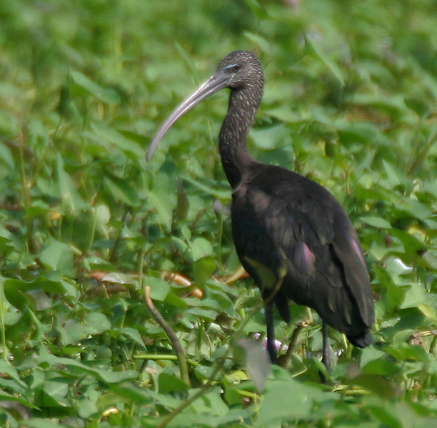 Glossy Ibises Plegadis falcinellus in Kolleru, Andhra Pradesh, India.